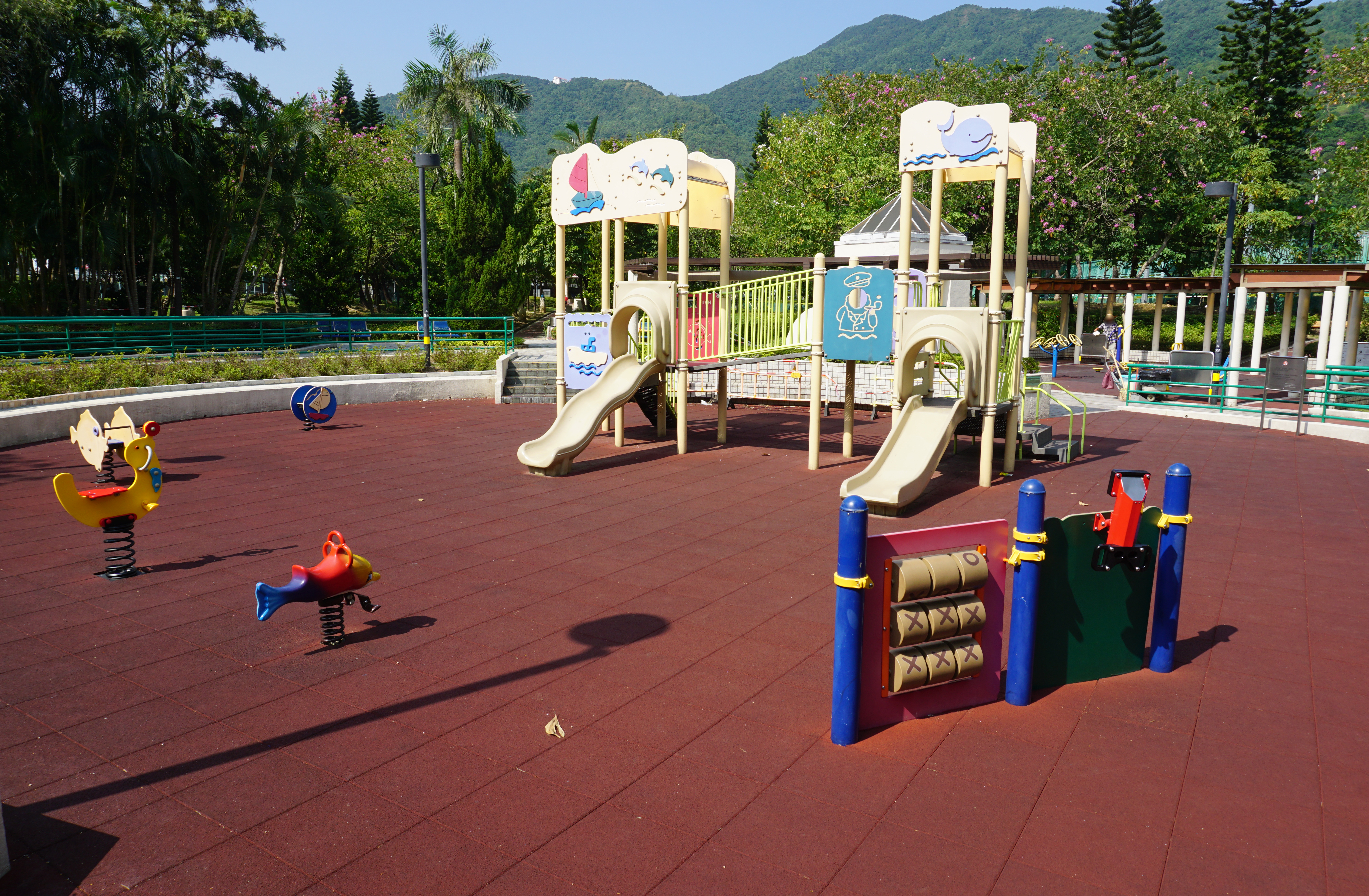 Po Tsui Park in Po Lam, Hong Kong.